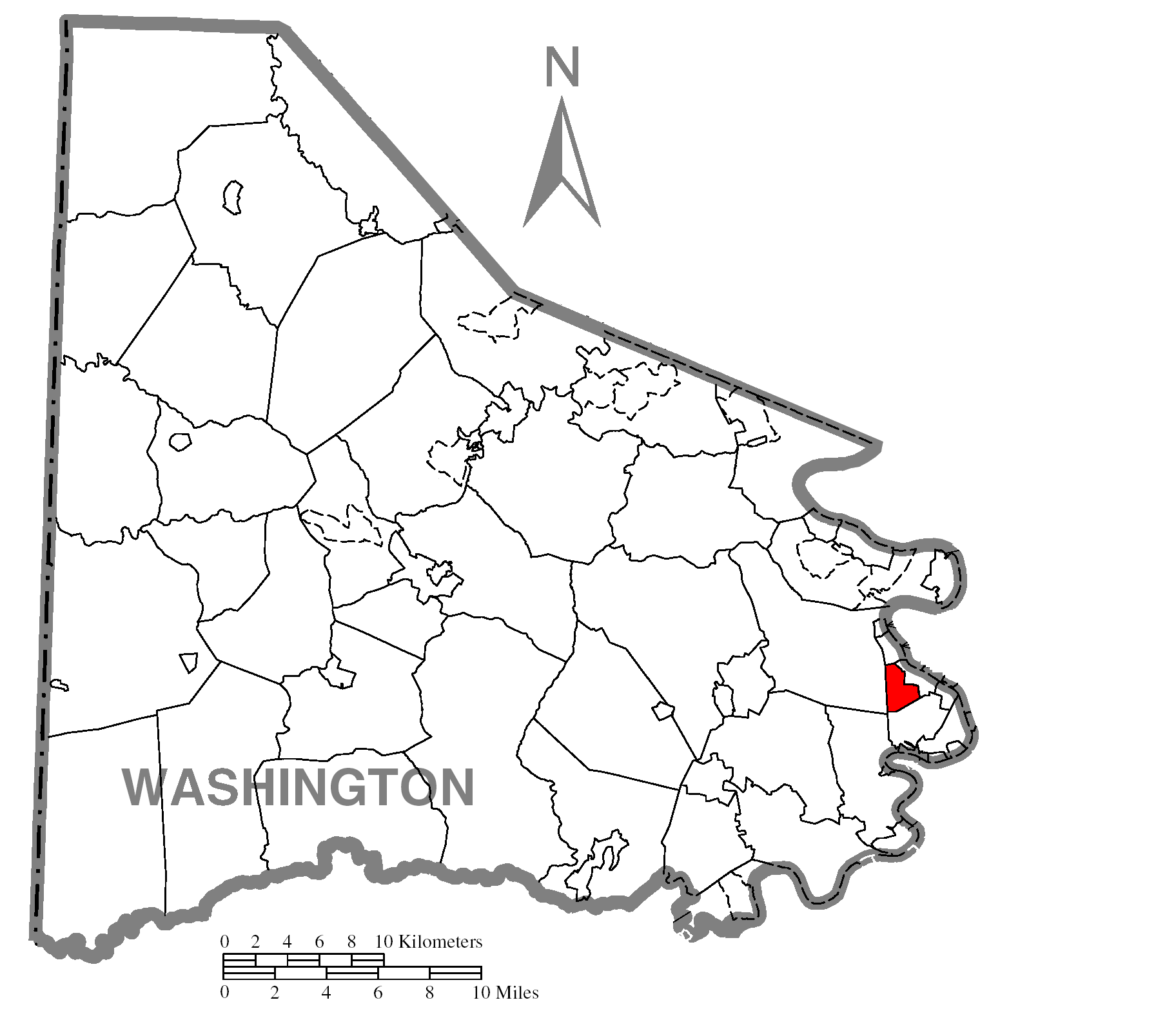 Map of Washington County higlighting Twilight.